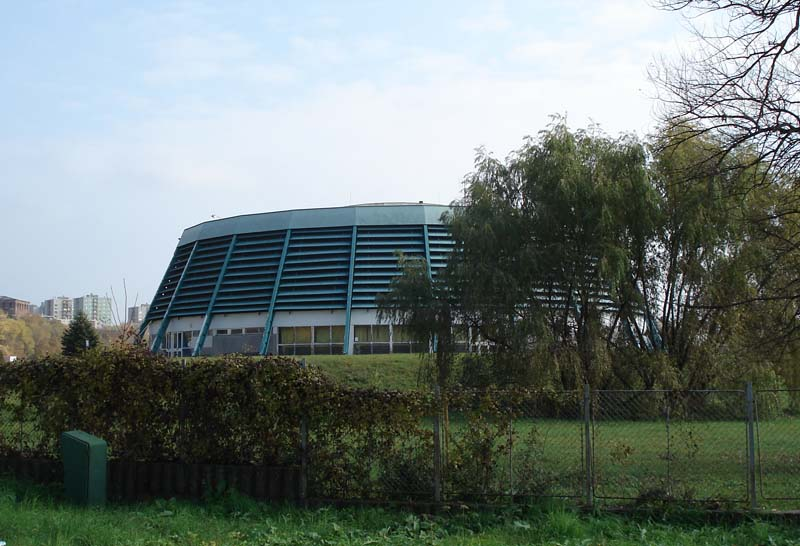 Sport Hall, University of Miskolc, Hungary